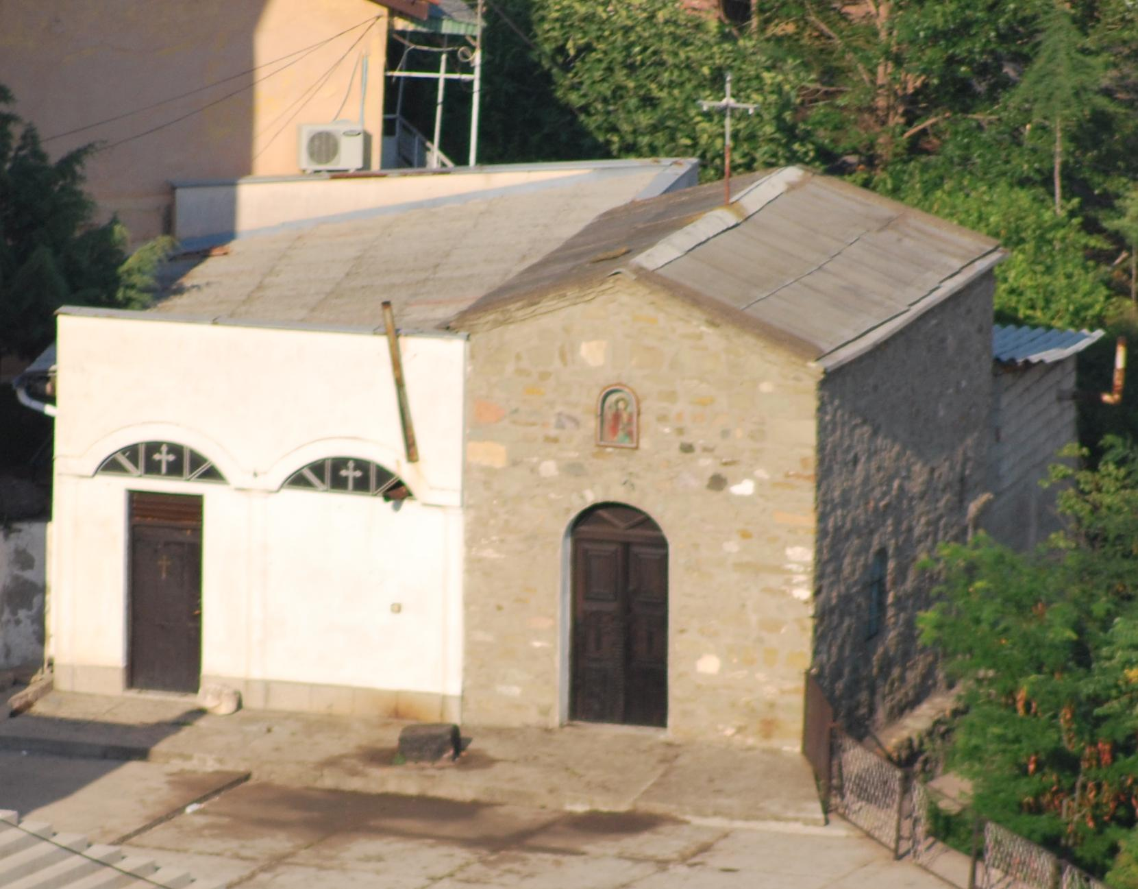 St. Michael the Archangel Glavatov Church in Štip, Macedonia